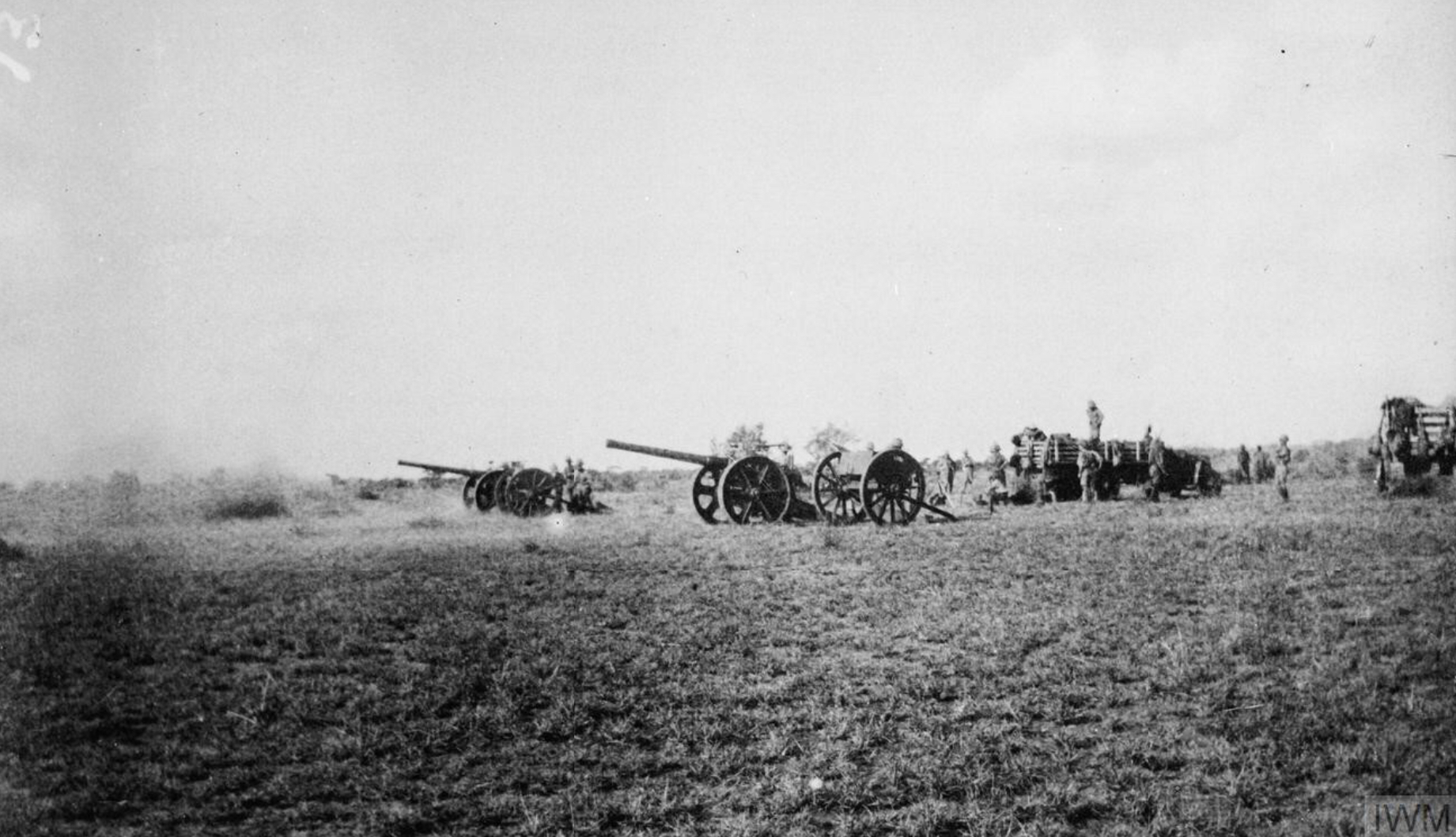 British 4-inch naval guns on improvised carriages in position above Njoro Drift during the two day bombardment of German positions at Salaita, 8 March 1916.